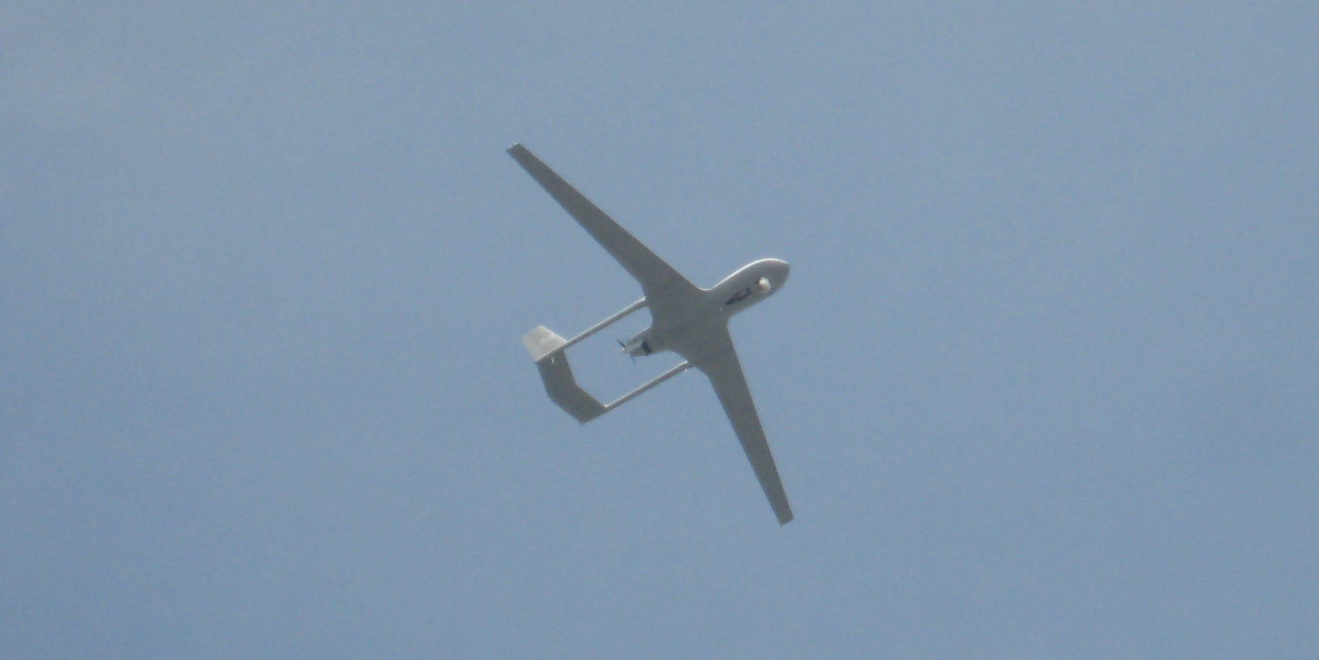 Harbin BZK-005